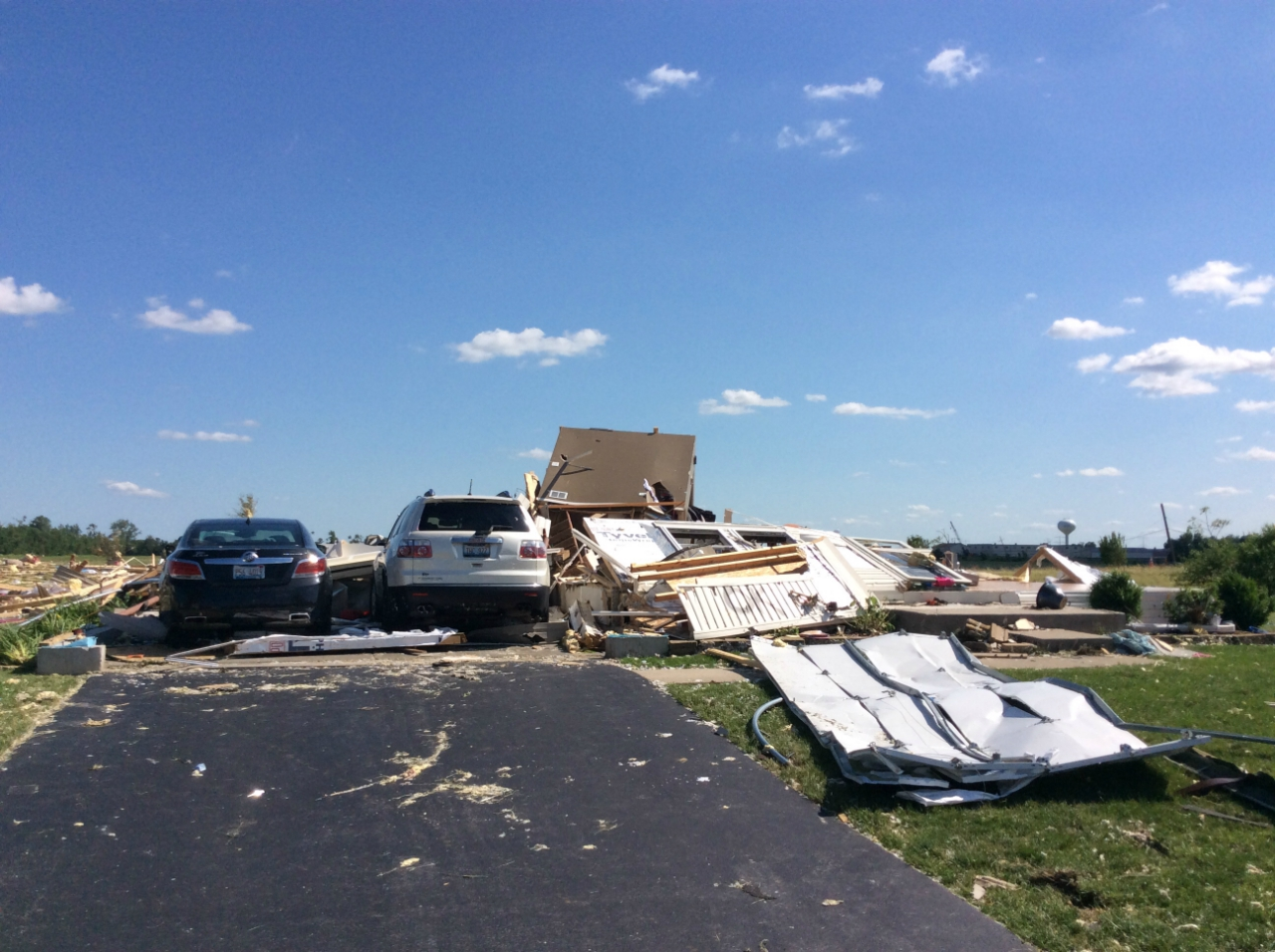 High-end EF3 damage to a home in Coal City, IL.